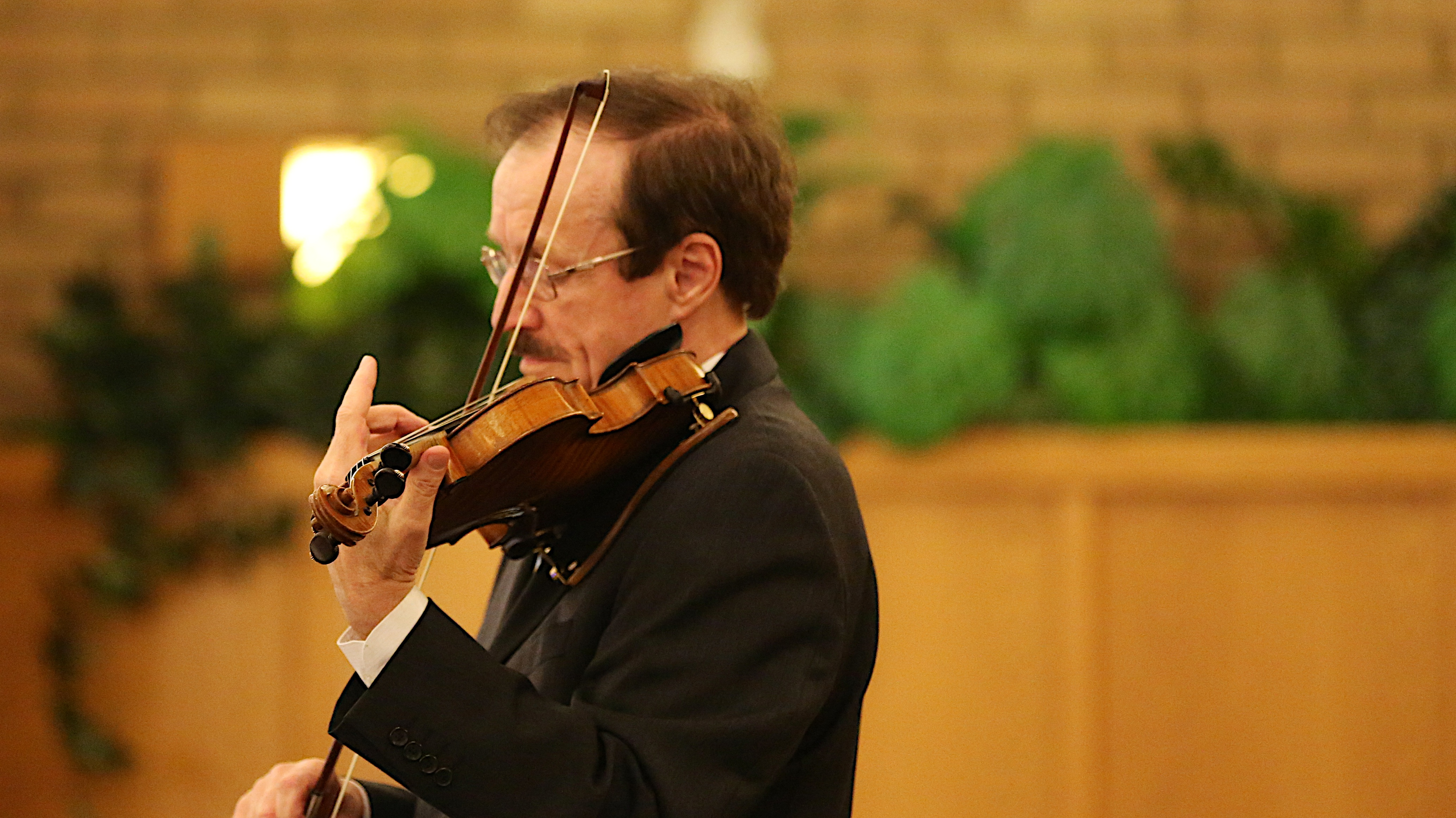 Cenek Vrba playing John Williams' "Theme from Schindler's List" on violin, 21 April 2013, in the Calgary Stake Centre of The Church of Jesus Christ of Latter-day Saints during a Holocaust Remembrance Service organized by The Calgary Council of Christians and Jews.